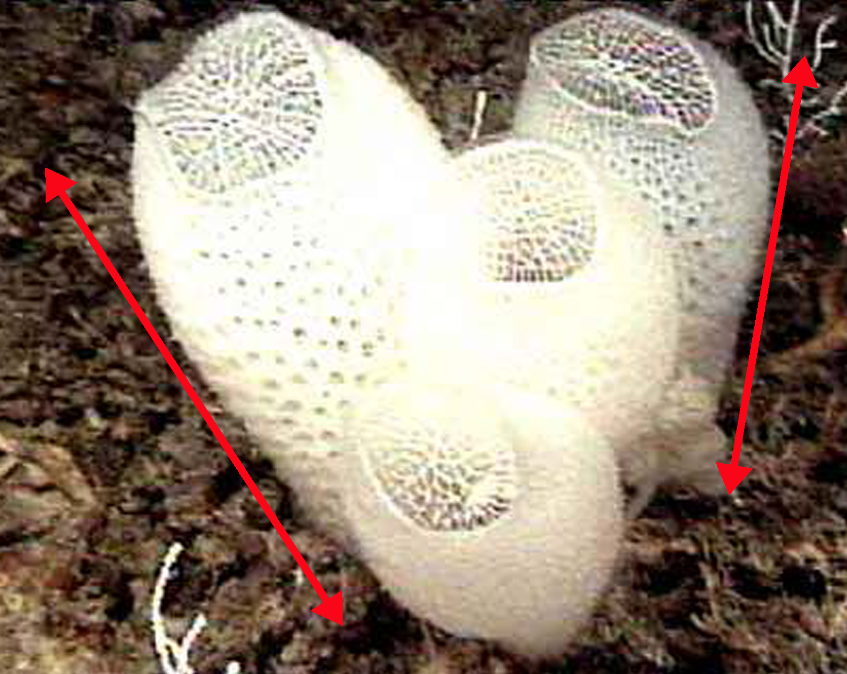 Photo of sponges with basal-apical axis labelled